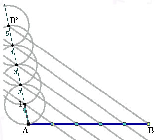 Theorem Talete divide a segment into equal parts